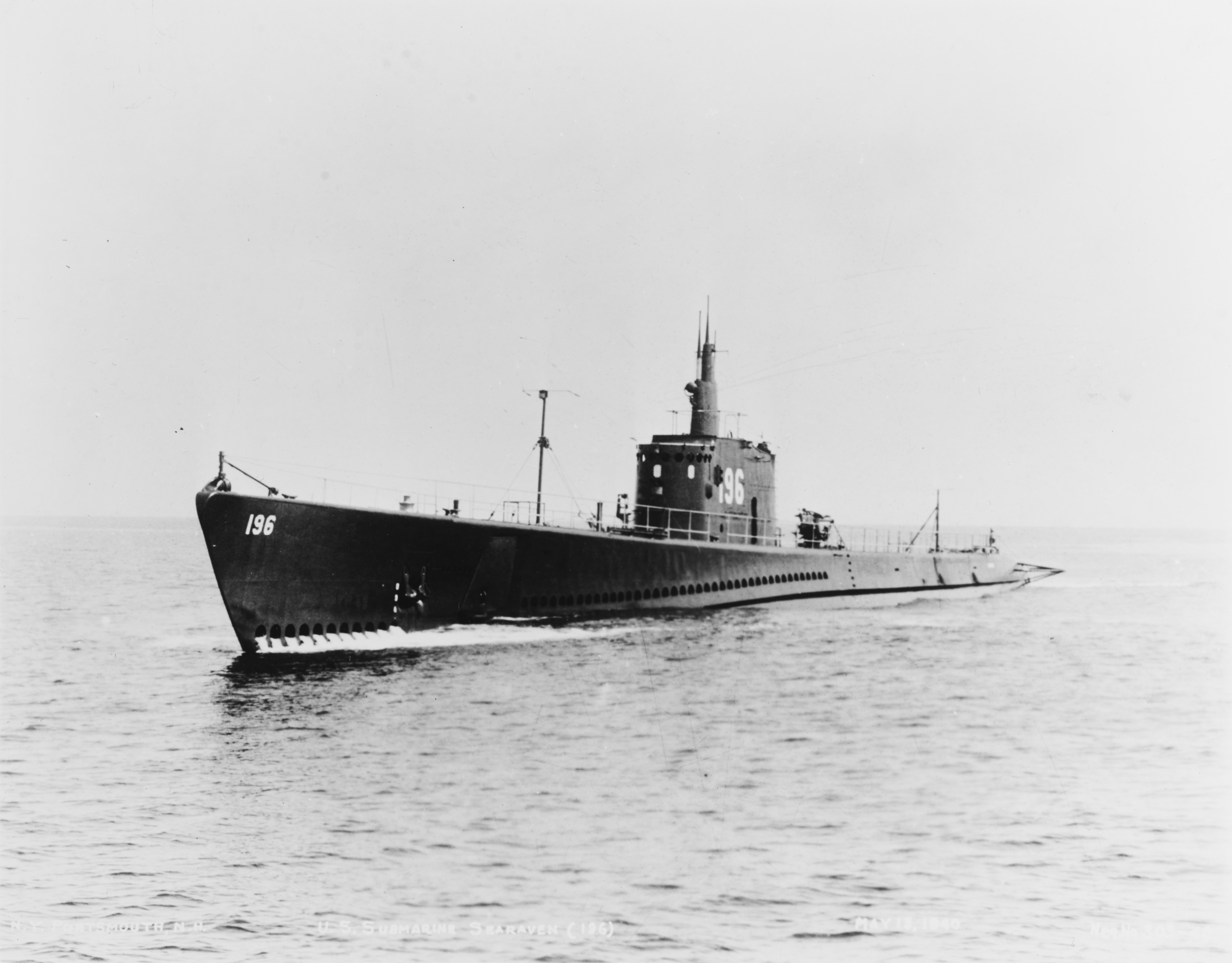 (SS-196) Off Portsmouth, New Hampshire, during her trials, 13 May 1940. Photograph from the Bureau of Ships Collection in the U.S. National Archives.